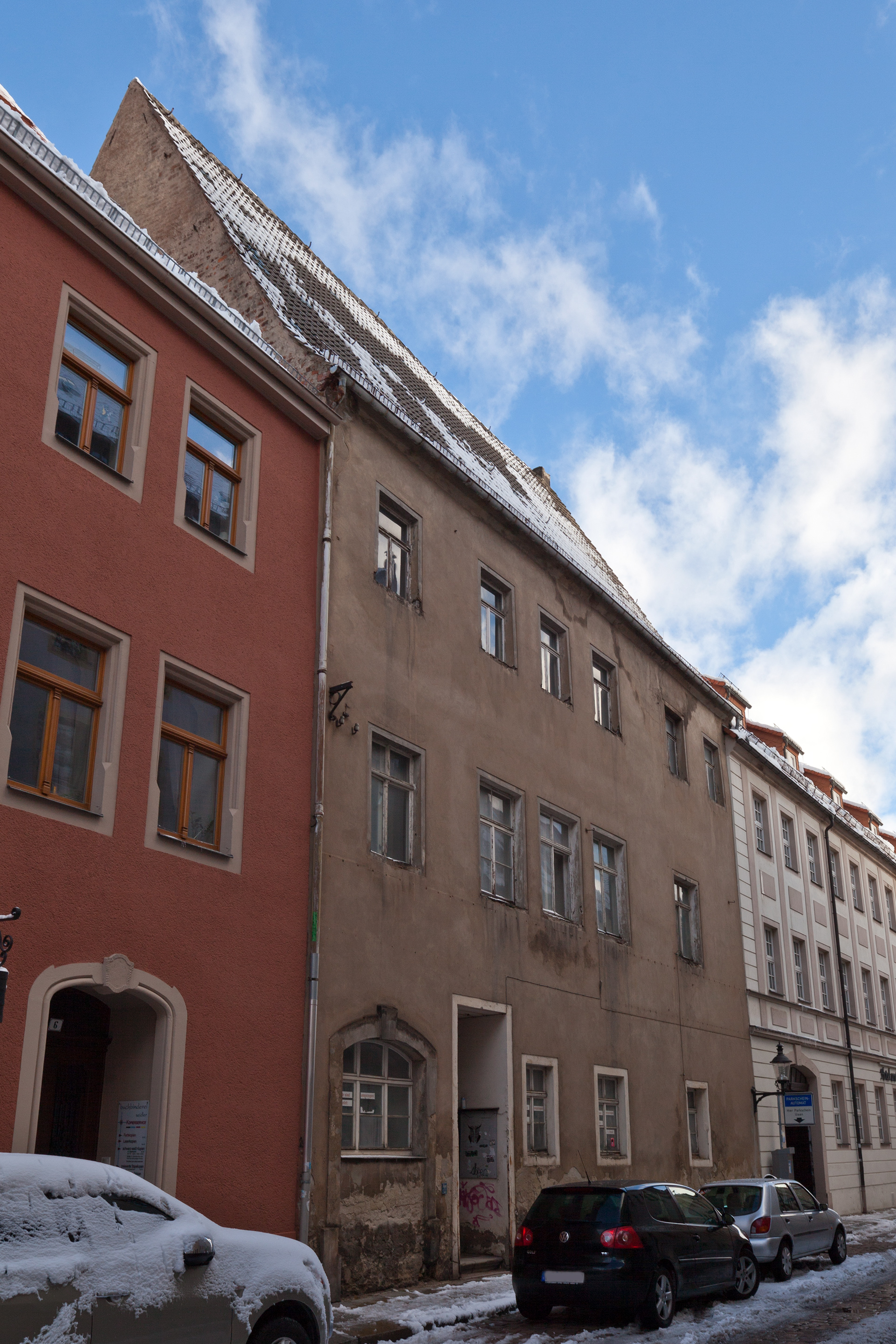 Freiberg, Waisenhausstr. 4